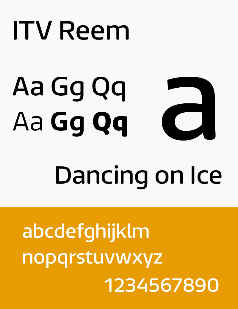 Sample of ITV Reem (typeface made for ITV)